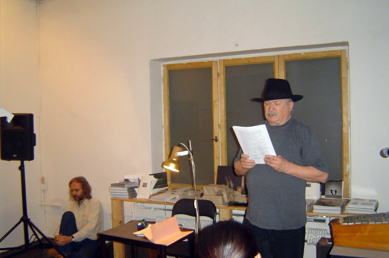 Czech poet Ivan Martin Jirous.